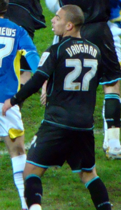 James Vaughan. Image cropped from original at Flickr.